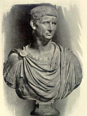 Claudius. From the bust in the Uffizi Gallery, Florence.